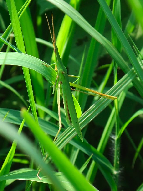 埋立地で生命をつなぐショウリョウバッタ（精霊飛蝗）オス。 撮影日：2006年 8月11日 撮影地：（東京都江東区青海） 撮影者：cory 出典： "Shoryo-Batta" (Acrida cinerea antennata), male, lives in reclaimed land of Tokyo. Date: 2006-08-11 (Aug 11, 2006) Place: Aomi Koto Tokyo, Japan. Author: ISAKA Yoji (cory)